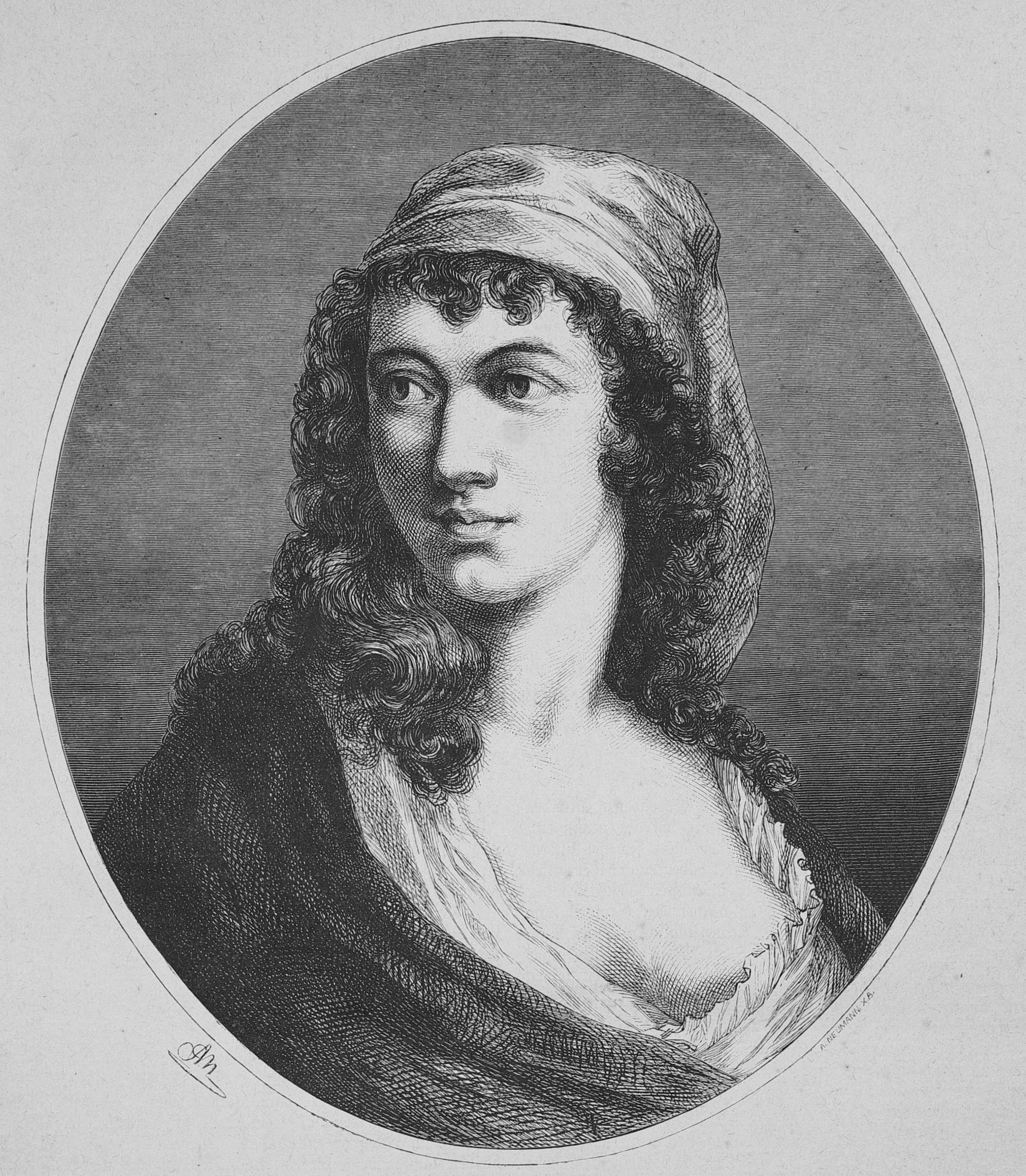 caption: "Théroigne de Mericourt. Nach einem altfranzösischen Kupferstich auf Holz gezeichnet von A. Neumann."